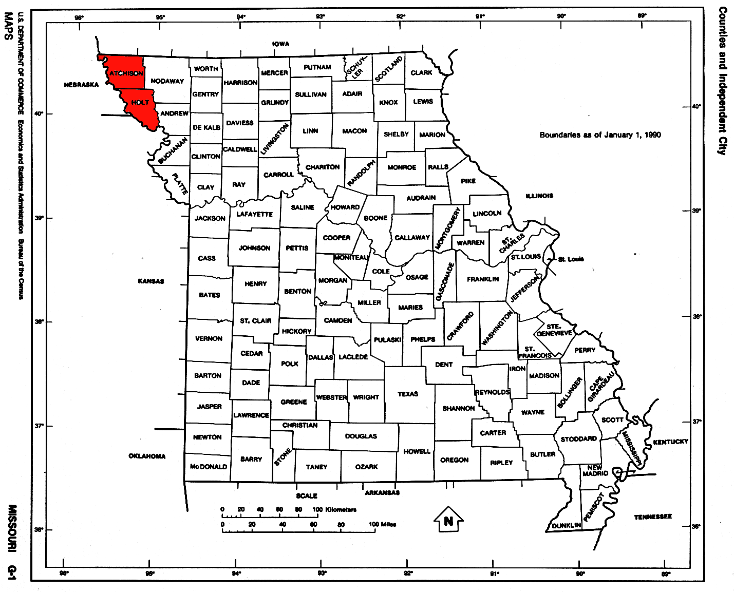 Edited Image:Missouri counties.gif in w: .